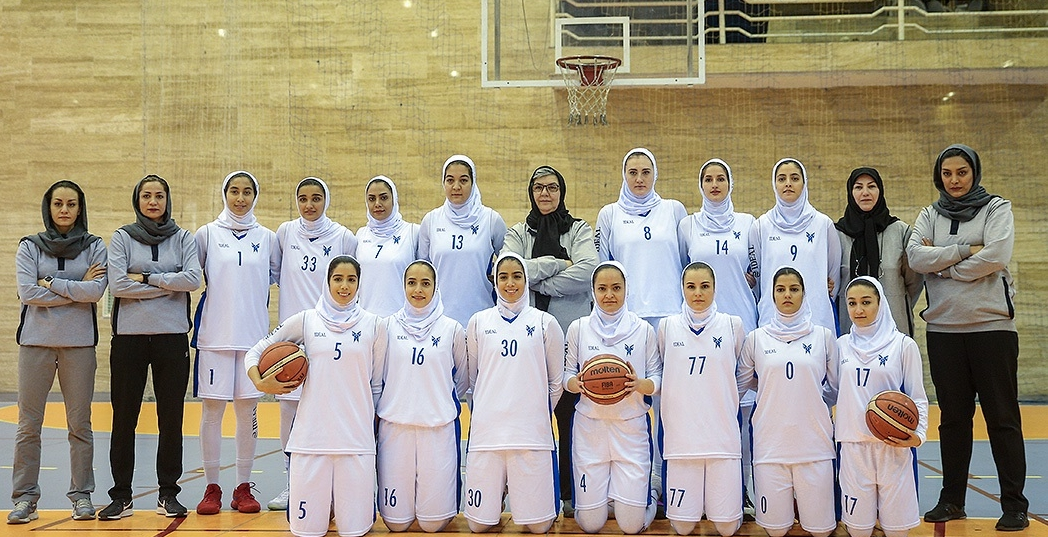 Iranian women basketball league Final - Azad University